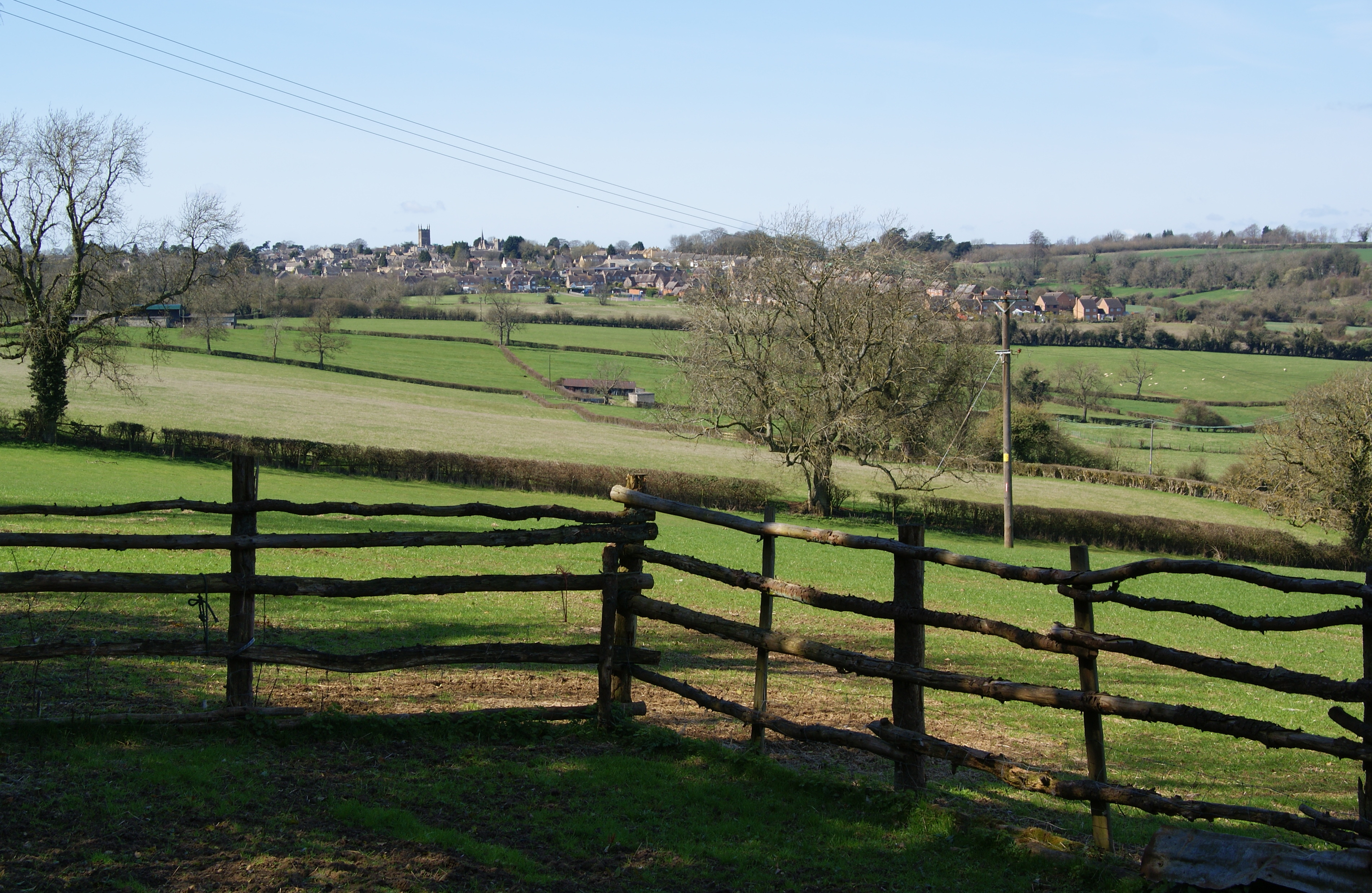 Stow-on-the-Wold Taken from near Oddington. This shows the town's hilltop position.